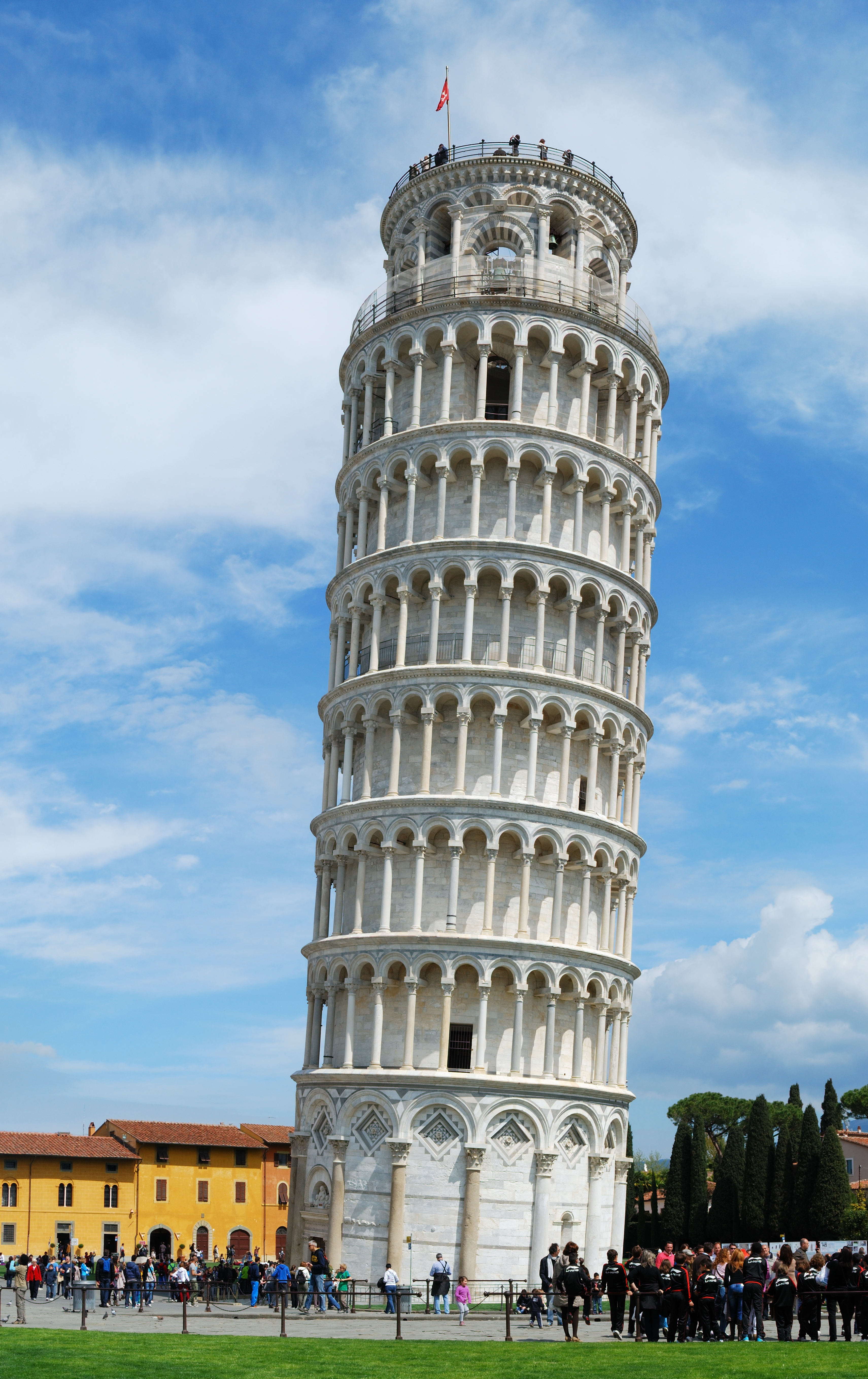 The Leaning Tower of Pisa